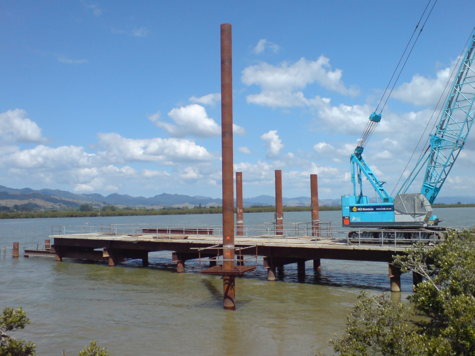 Kopu Bridge, near Thames, New Zealand. Looking south at the new bridge being built (piling into the soft ground coming first).